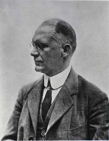 Carl Emil Hansen Ostenfeld (1877-1931), Danish botanist